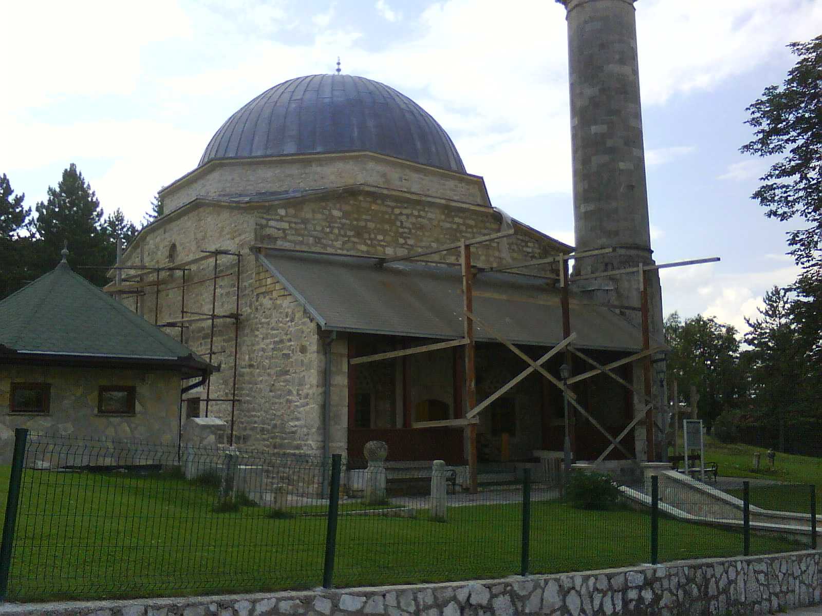 Mosque in Livno